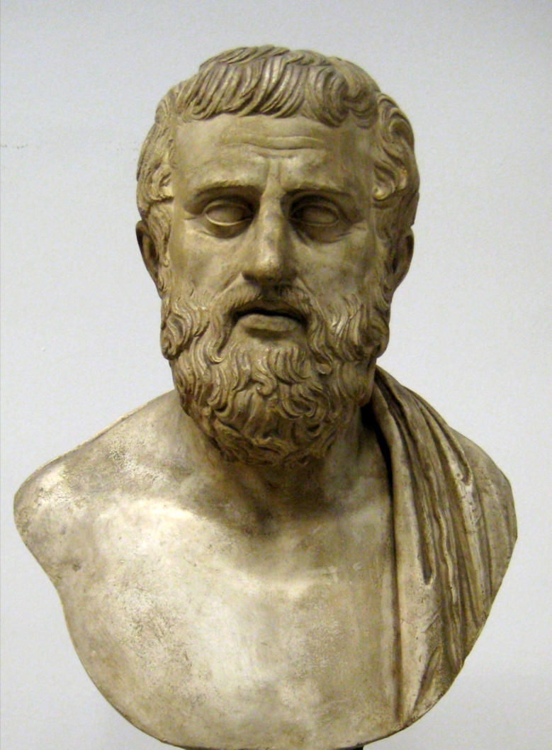 Sophocles. Cast of a bust in the Pushkin Museum.